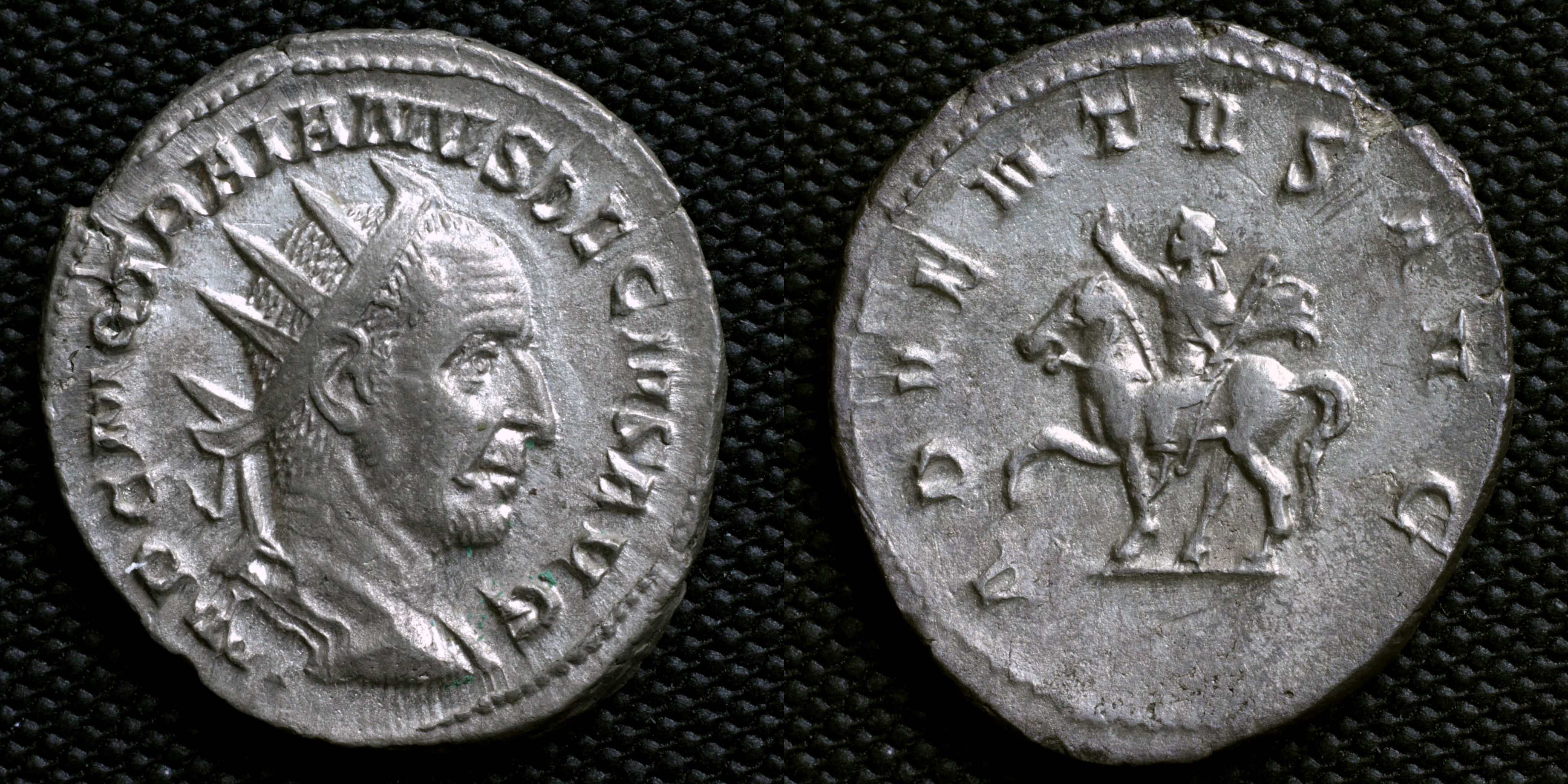 Decius - AR antoninianus of Decius struck in Rome 250 AD. radiate cuirassed bust right from behind IMP C M Q TRAIANVS DECIVS AVG Trajan Decius on horse riding left, raising hand and holding scepter ADVENTVS AVG references: 3rd emission - SRCV III 9366, RIC IV 11b, RSC IV 4 weight: 2,92 g diameter: 23-21 mm